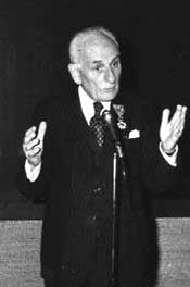 George Coudray, former deputé of Saint-Malo and mayor of Paramé